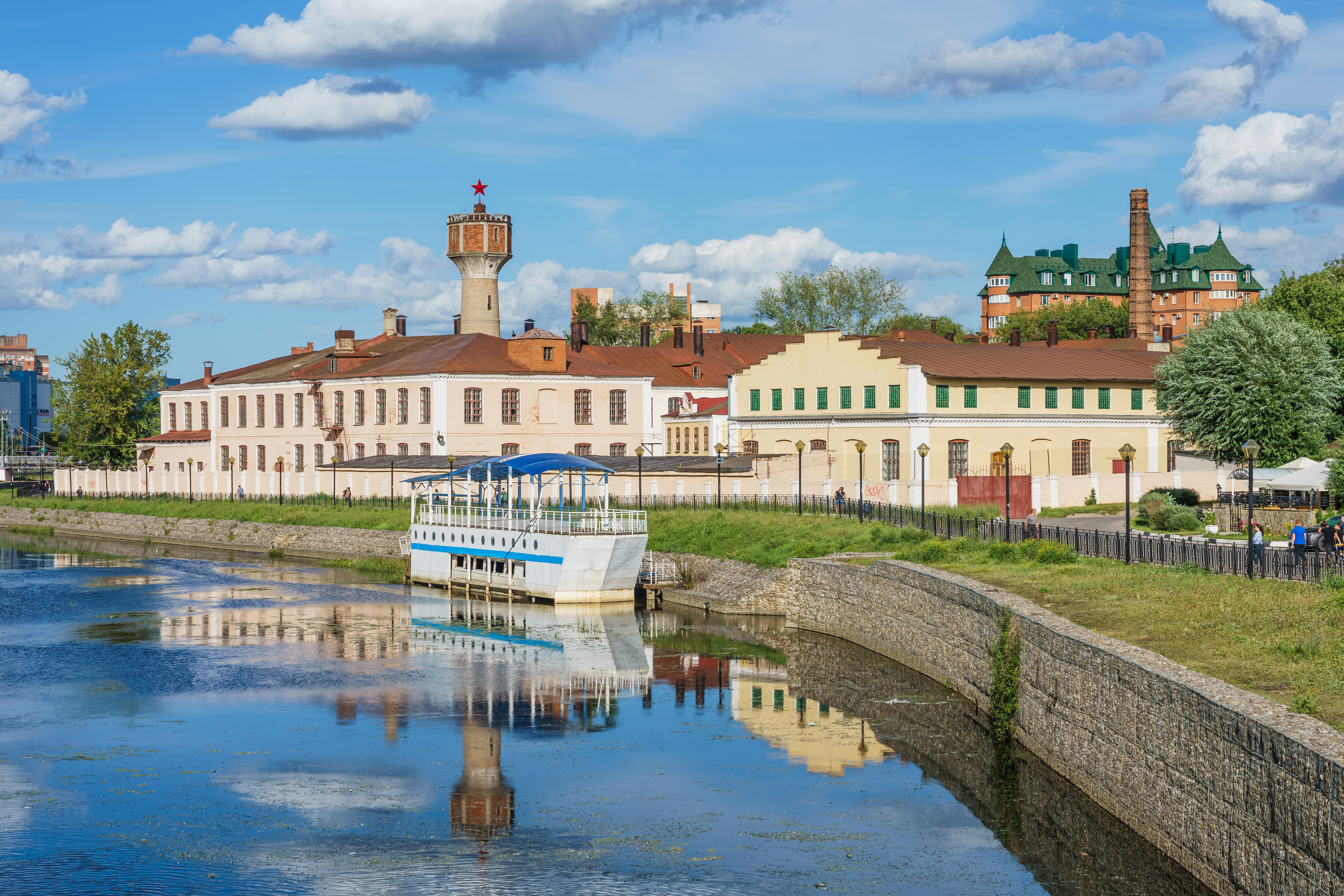 View of Fokin Manufactory in Ivanovo, Russia